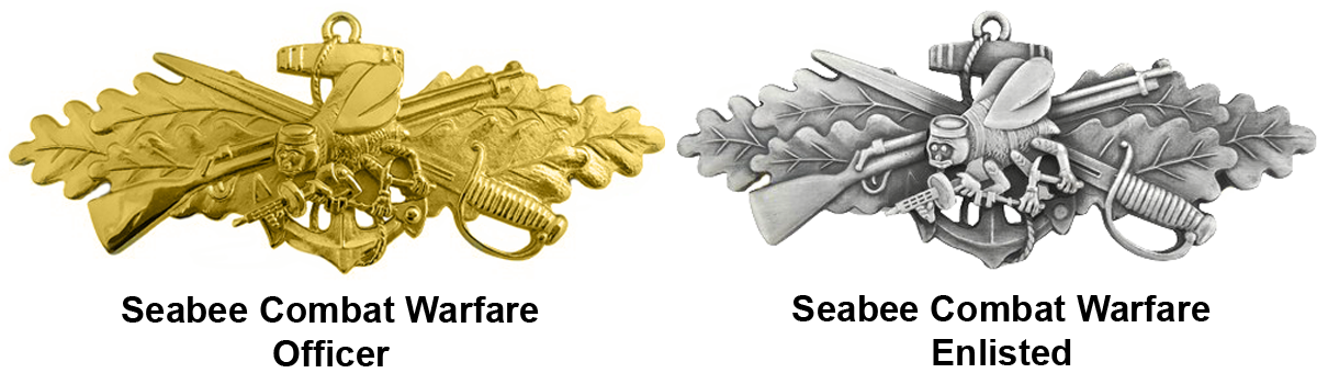 Image of Seabee Combat Warfare Specialist insignia used in the US Navy. For use in USN articles concerning awards.